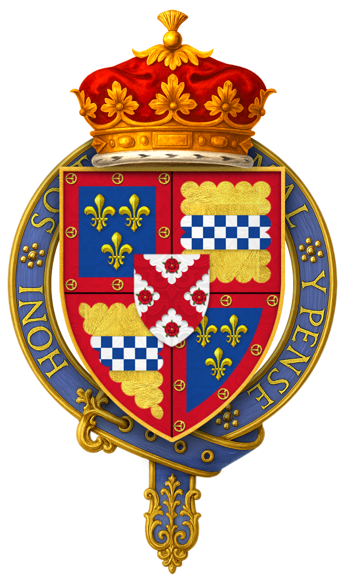 Coat of arms of Sir Esme Stewart, 3rd Duke of Lennox, 2nd Duke of Richmond, KG